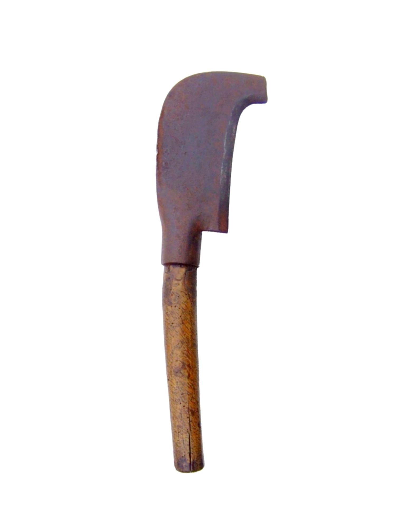 Tool of Elba island